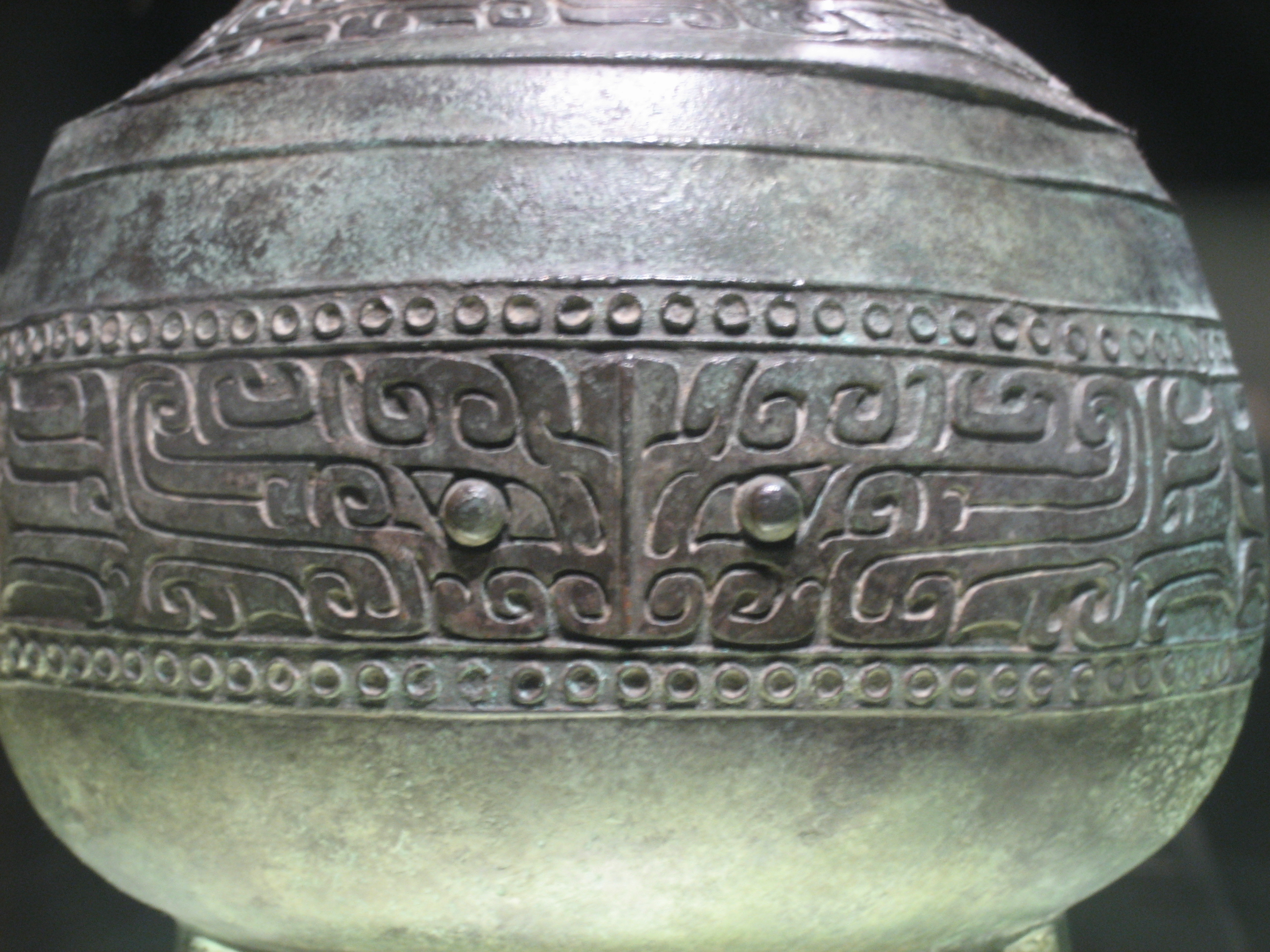 A taotie, an animal mask motif, on a Hu of the Middle Shang dynasty, Shanghai Museum.